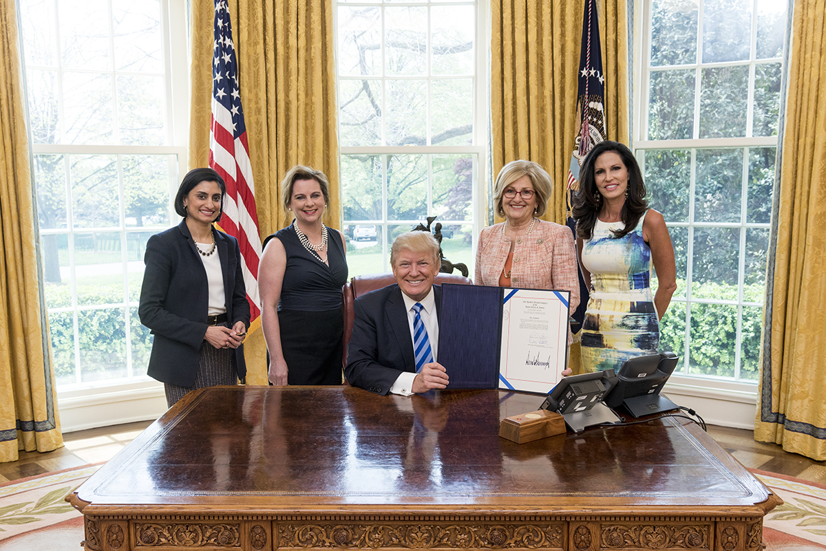 Flanked by (from left) Seema Verma, Administrator of the Centers for Medicare and Medicaid Services; Marjorie Dannenfelser, President of Susan B. Anthony List; Rep. Diane Black (TN-06), Chairman of the House Budget Committee; and Penny Nance, CEO and President of Concerned Women for America; President Donald Trump poses for a photo after signing H.J.Res. 43 in the Oval Office, Thursday, April 13, 2017. (Official White House Photo by D. Myles Cullen)